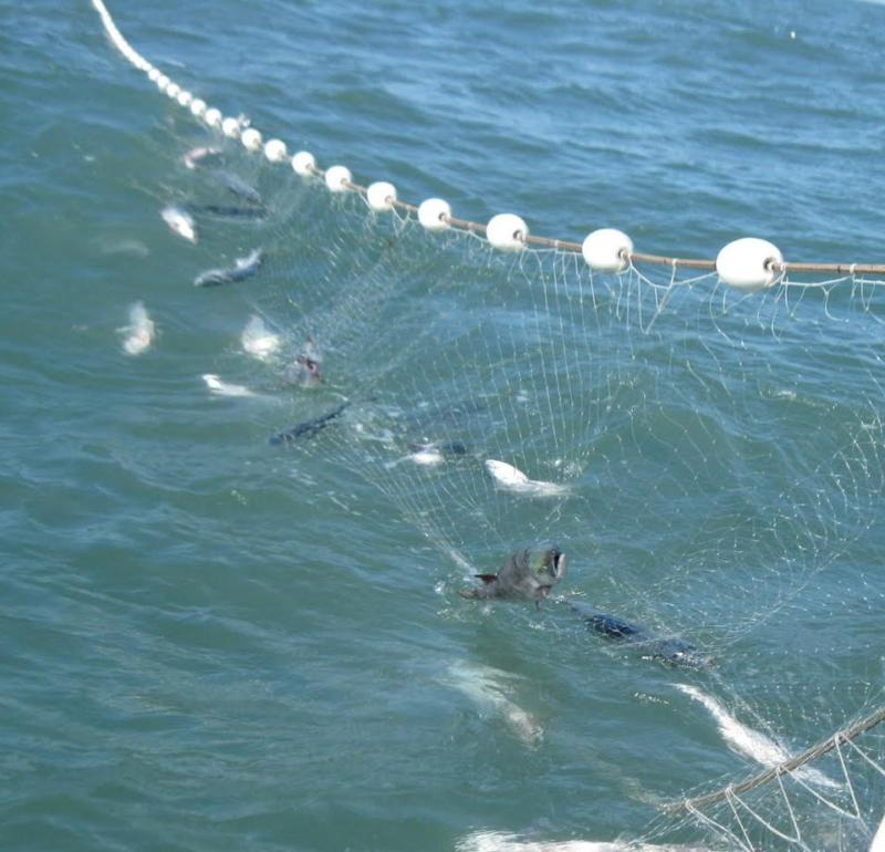 Net fishing the world's best, excellent quality handmade